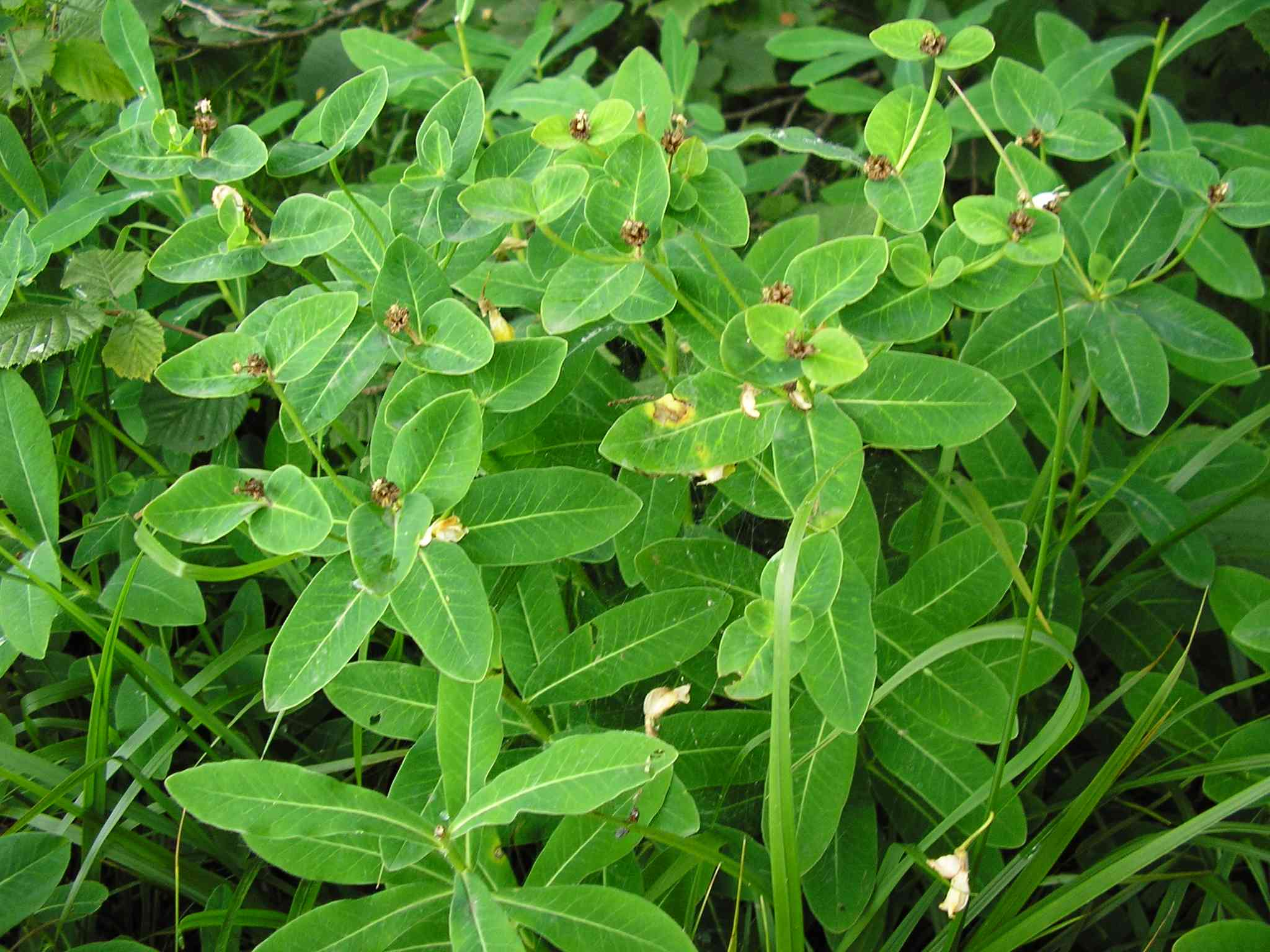 Euphorbia gibelliana Peola